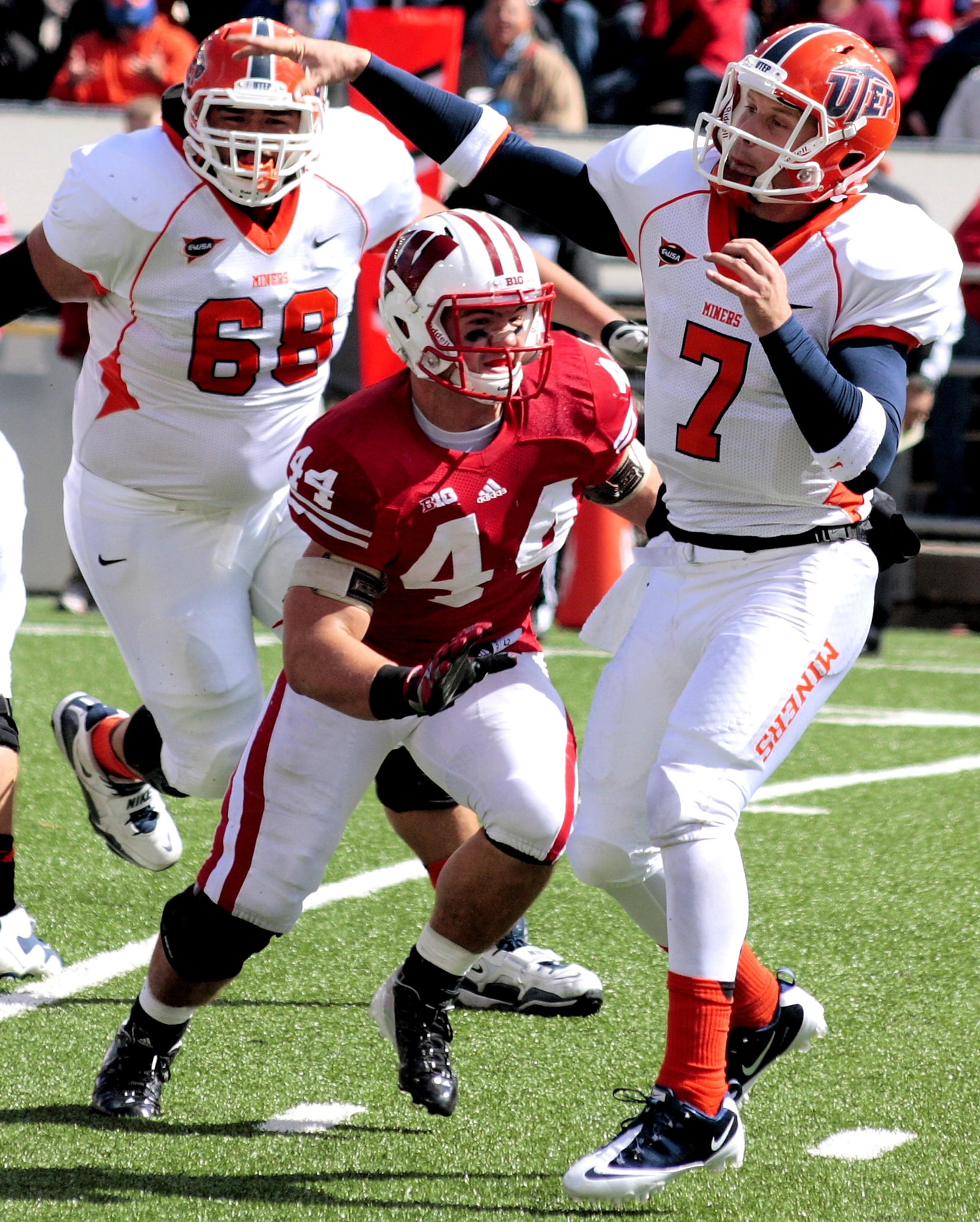 The UTEP quarterback throws an incompletion under pressure from Chris Borland.